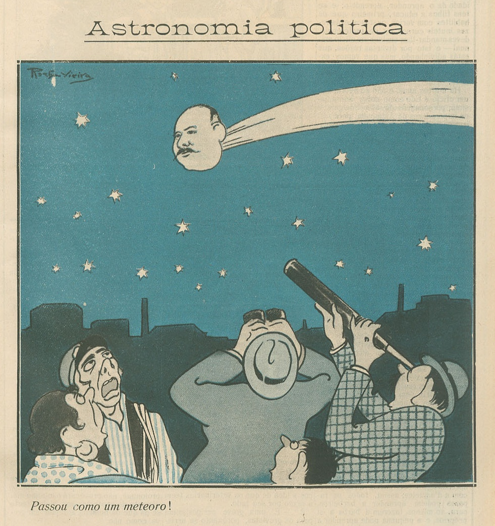 Political Astronomy: a cartoon by Rocha Vieira, published on O Século Cómico, satirising the short-lived "Five-Minute Government" of Francisco Fernandes Costa (who was forced to resign from the position of Prime Minister of Portugal the same day he was to take office, in 1920). The shooting star has Fernandes Costa's likeness and the people are saying "it went by like a meteor!"